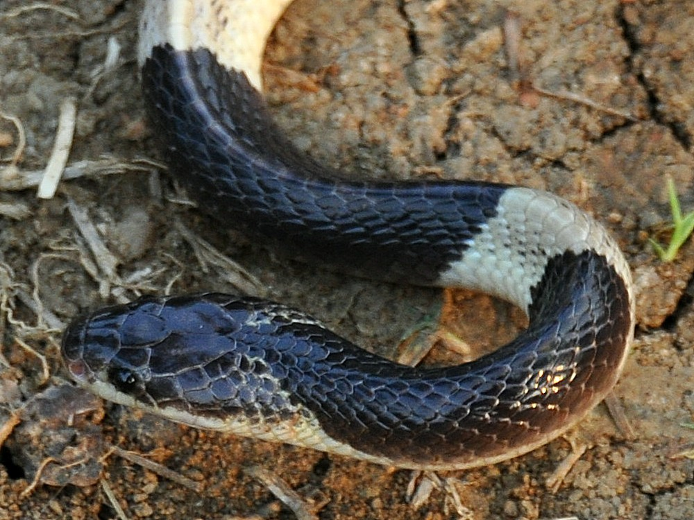 Blue krait (Bungarus candidus), ca. 70cm TL, from Karawang, West Java. Head close-up.